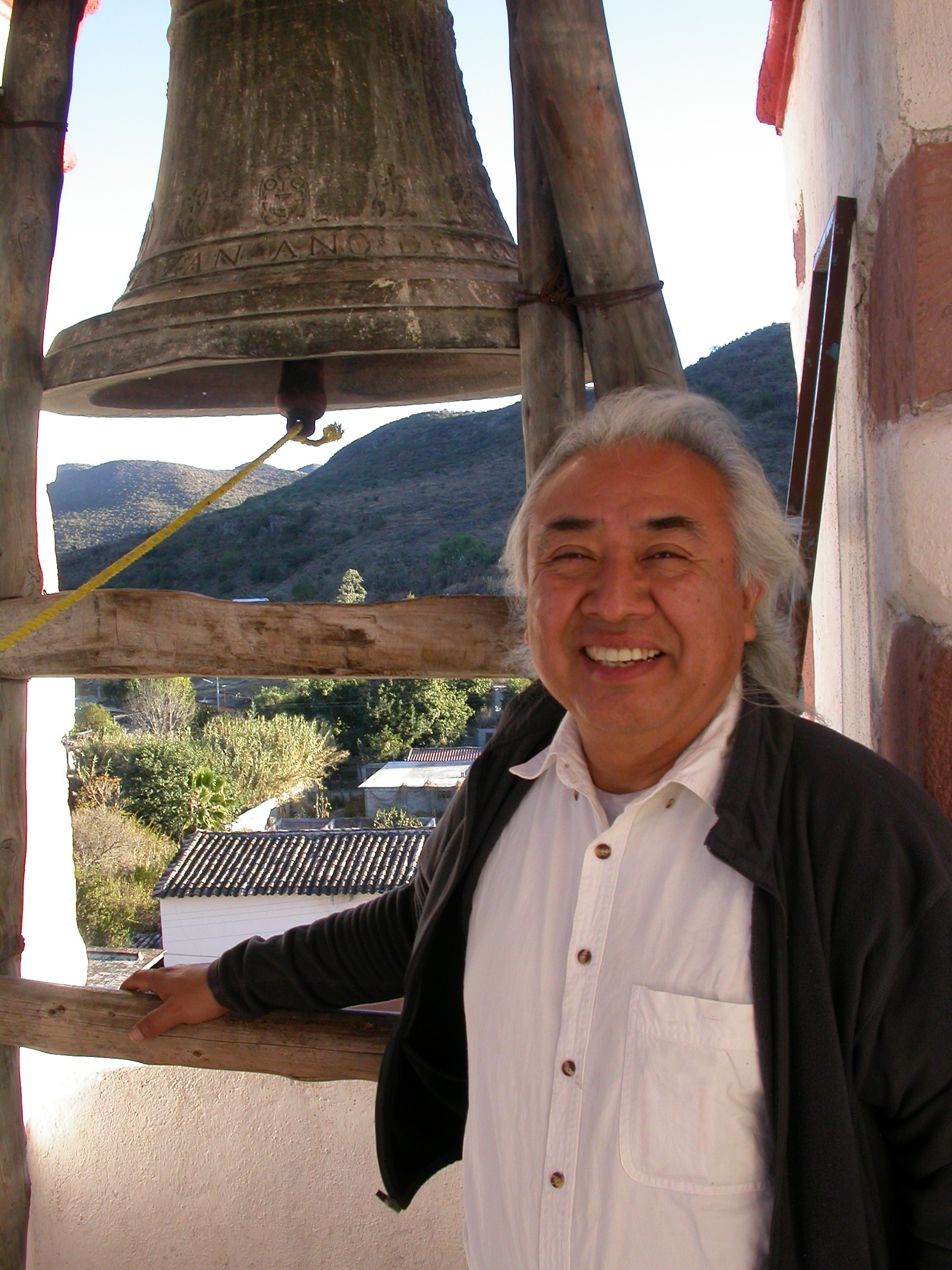 Hugo Morales. In his village in Oaxaca Mexico, 2004.